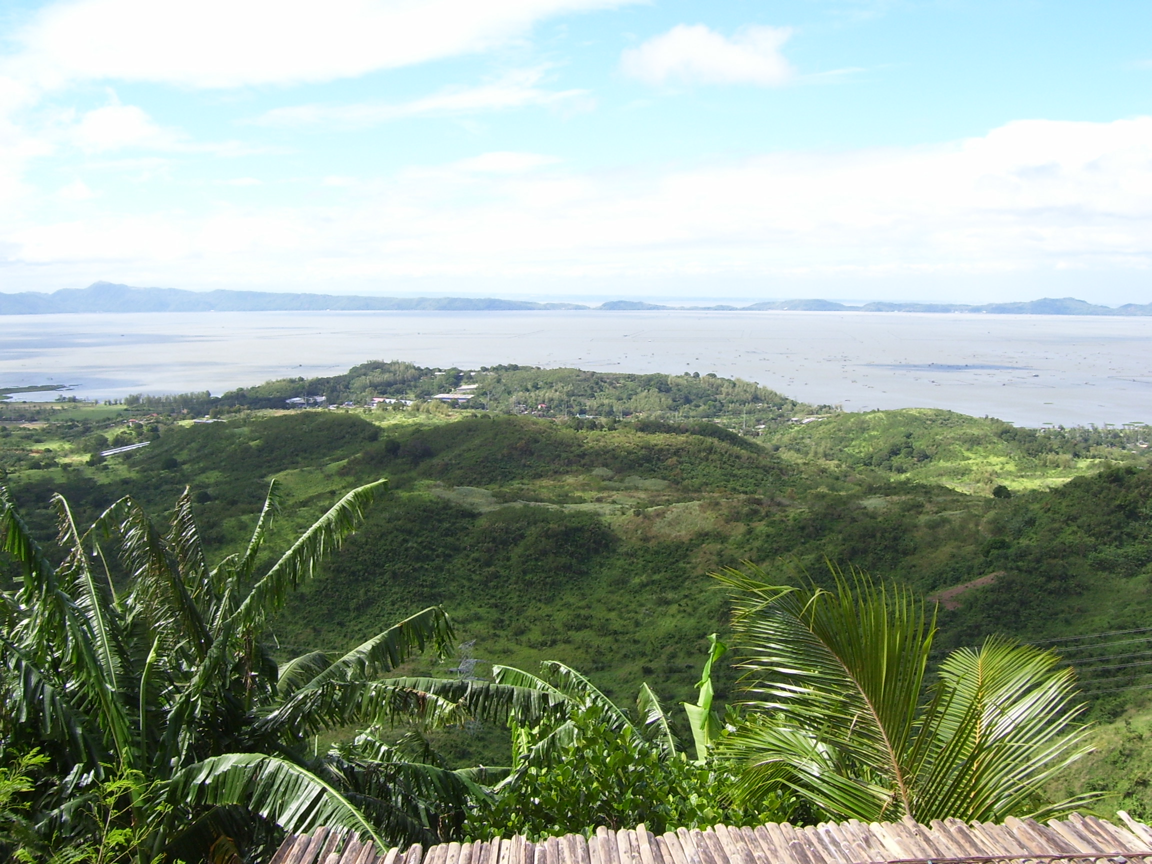 Laguna Caldera looking West 247 degrees